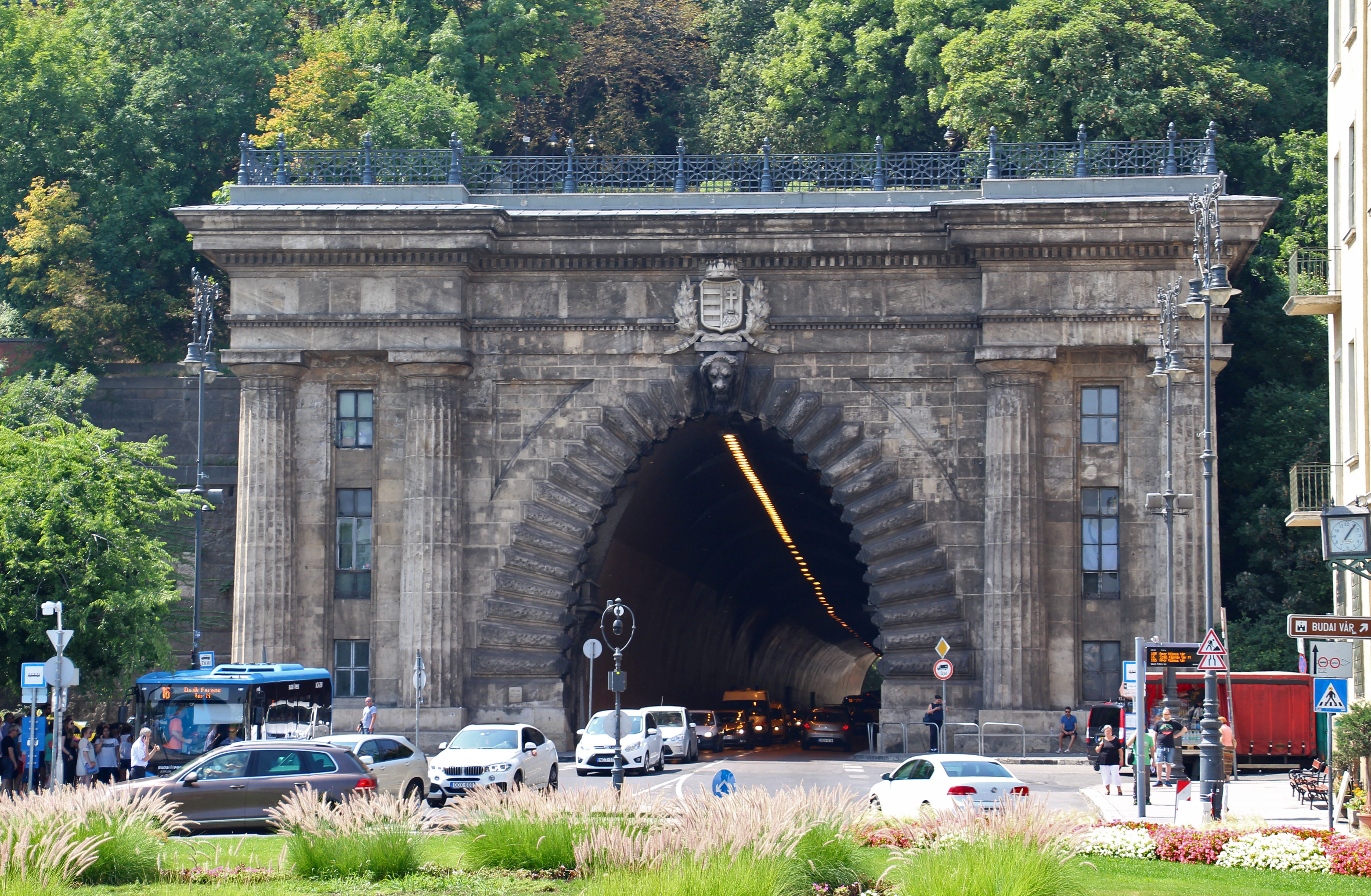 Várkerület - Alagút The Várhegy Tunnel or the Buda Castle Tunnel is 350 meter long tunnel connecting the Buda side of the Széchenyi Chain Bridge (Clark Ádám tér) to Krisztinaváros. Arch. Ádám Clark 1853-57